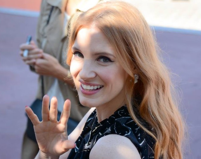 Jessica Chastain at the Cannes Film Festival